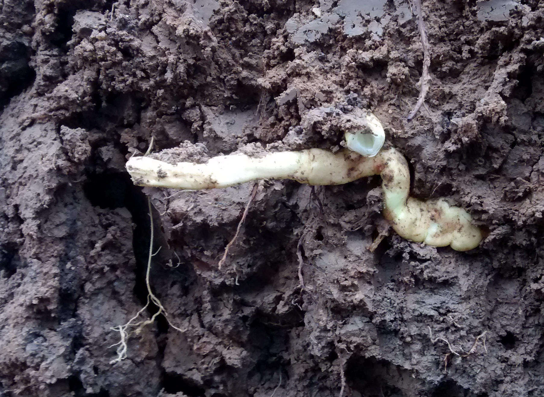 Roots of stachys